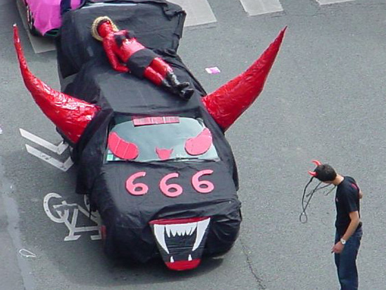 photo from a street parade in Paris